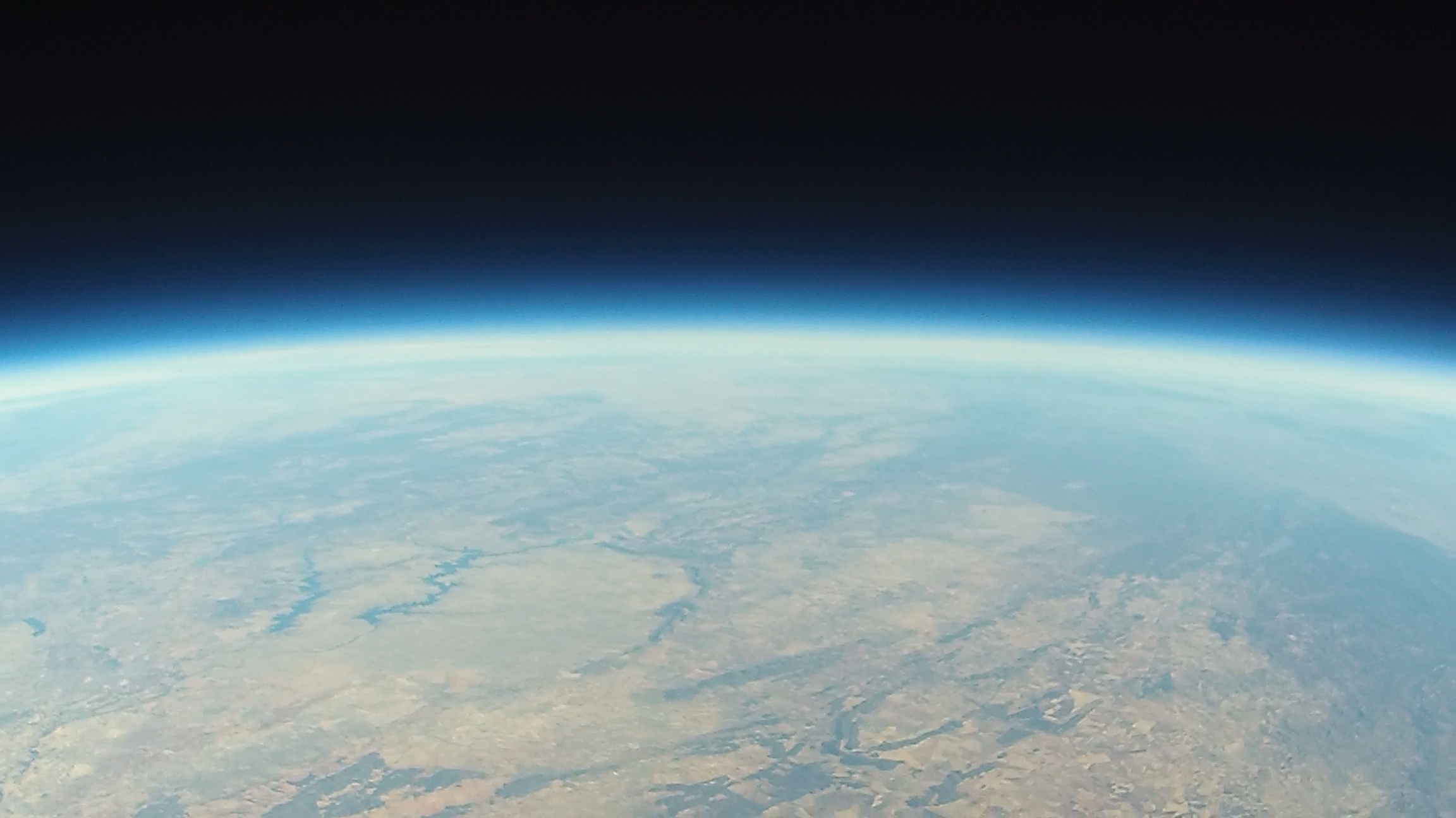 The Earth’s stratosphere using a high altitude weather balloon